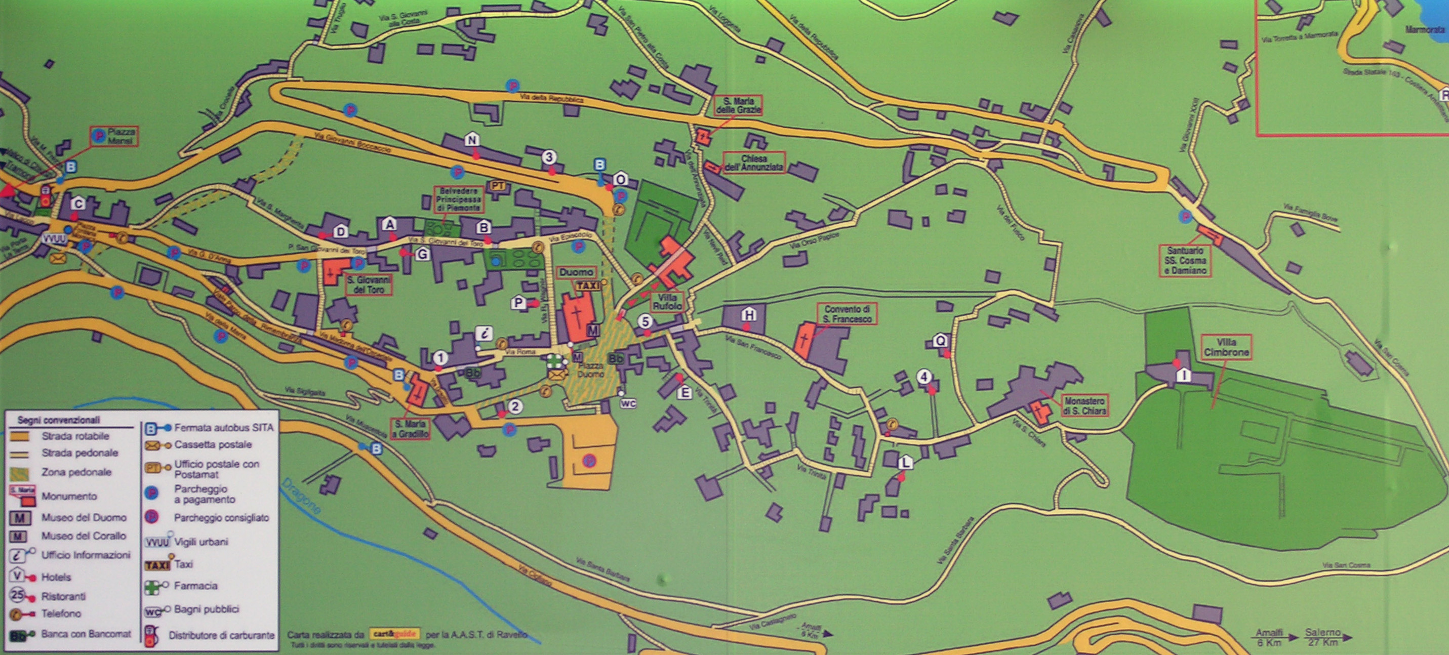 Official map of the town of Ravello, in the Province of Salerno, Campania, Italy.